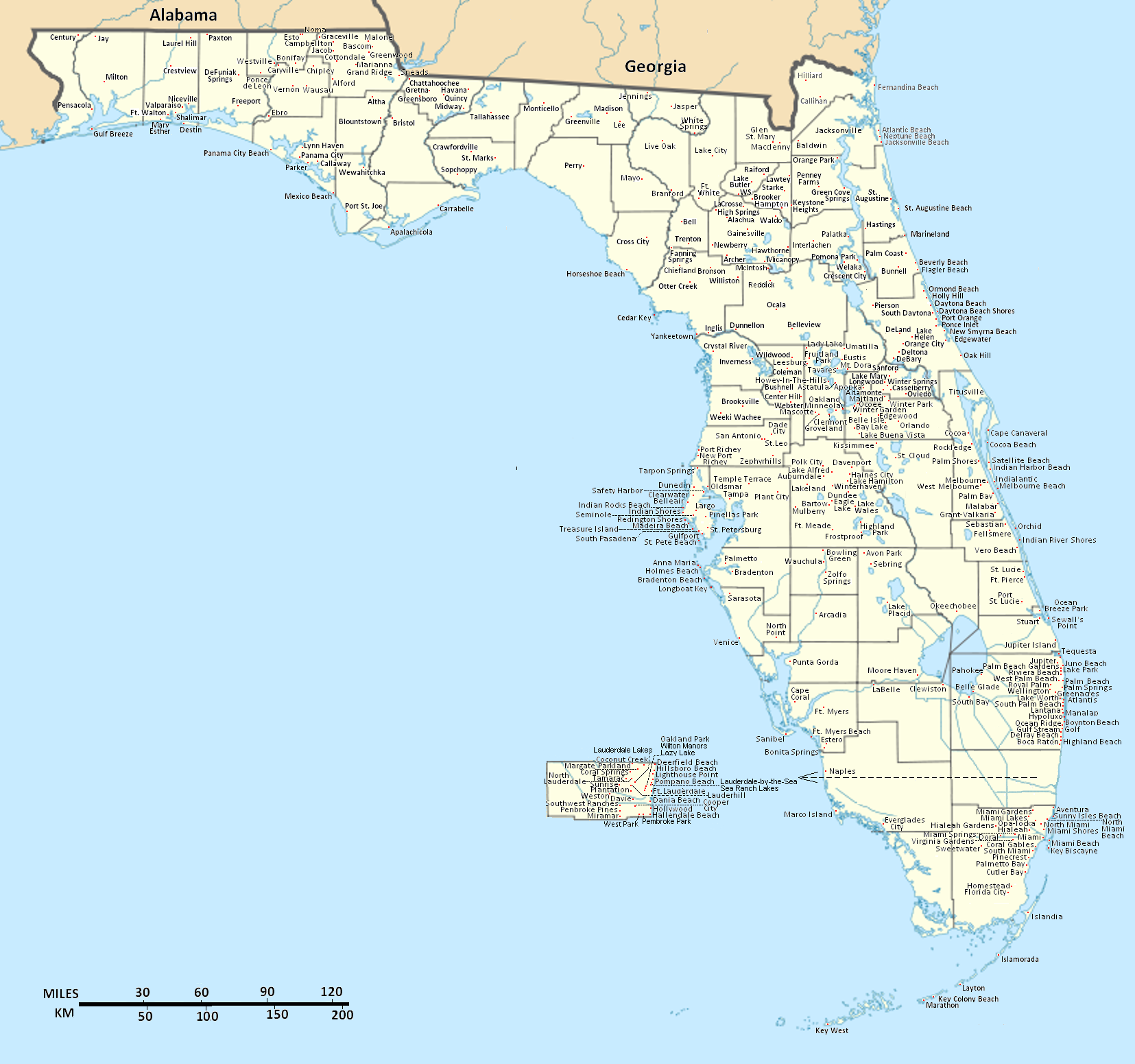 The list of municipalities in Florida.